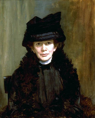 Portrait of Ellen Day Hale by Margaret Lesley Bush-Brown, 1910, oil on canvas, Smithsonian Museum of American Art, Washington, D.C.